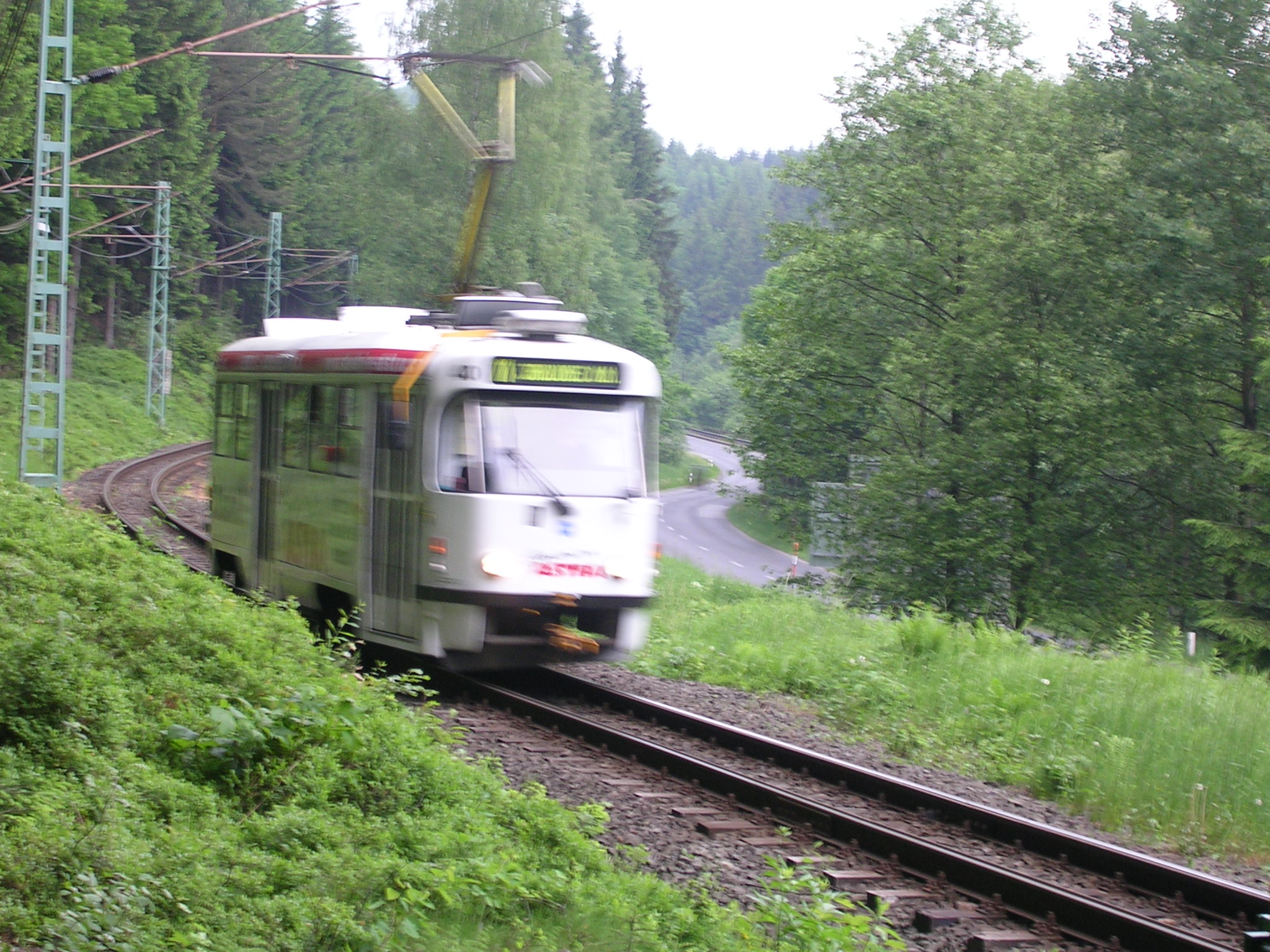 Tramway line between Liberec and Jablonec. The Czech Republic.